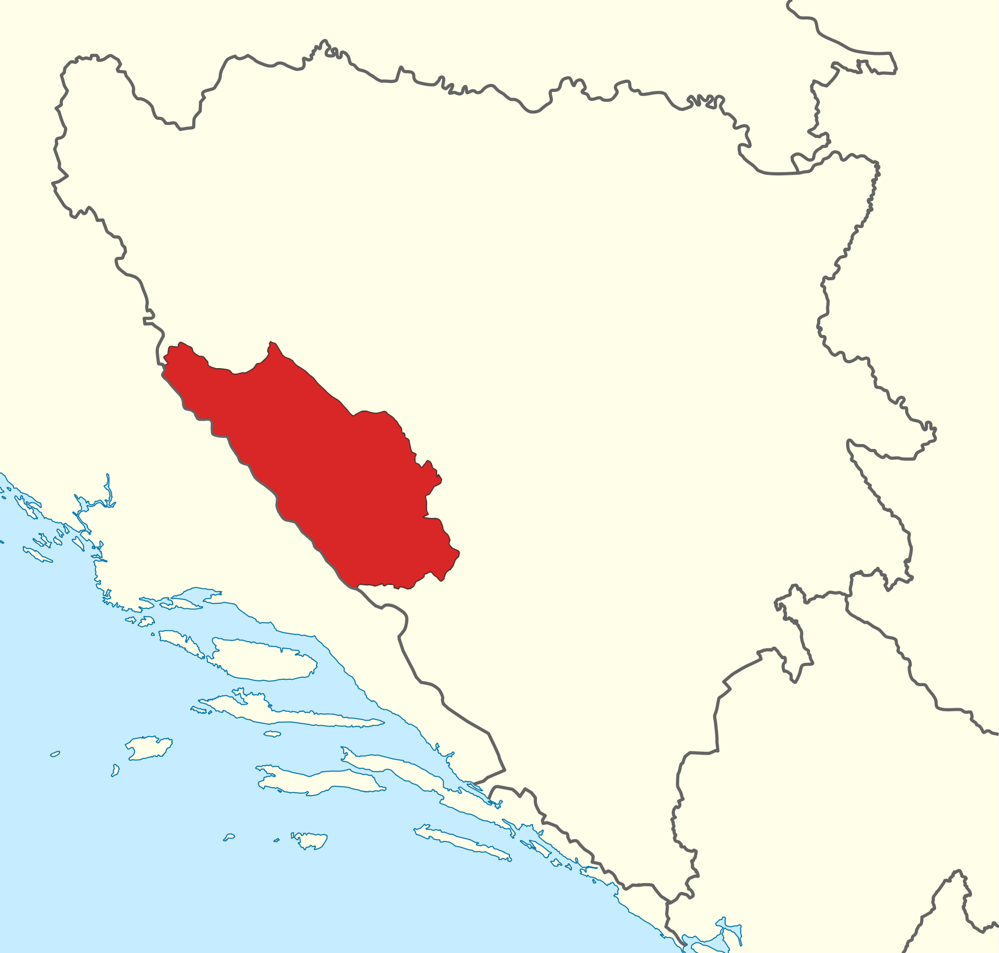 Map of Tropolje/Završje, historical/geographical regionHrvatski: Karta Tropolja/Završja, geografske/povijesne pokrajine